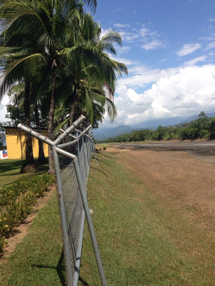 This is a picture of the runway at Quepos Airport in Costa Rica.